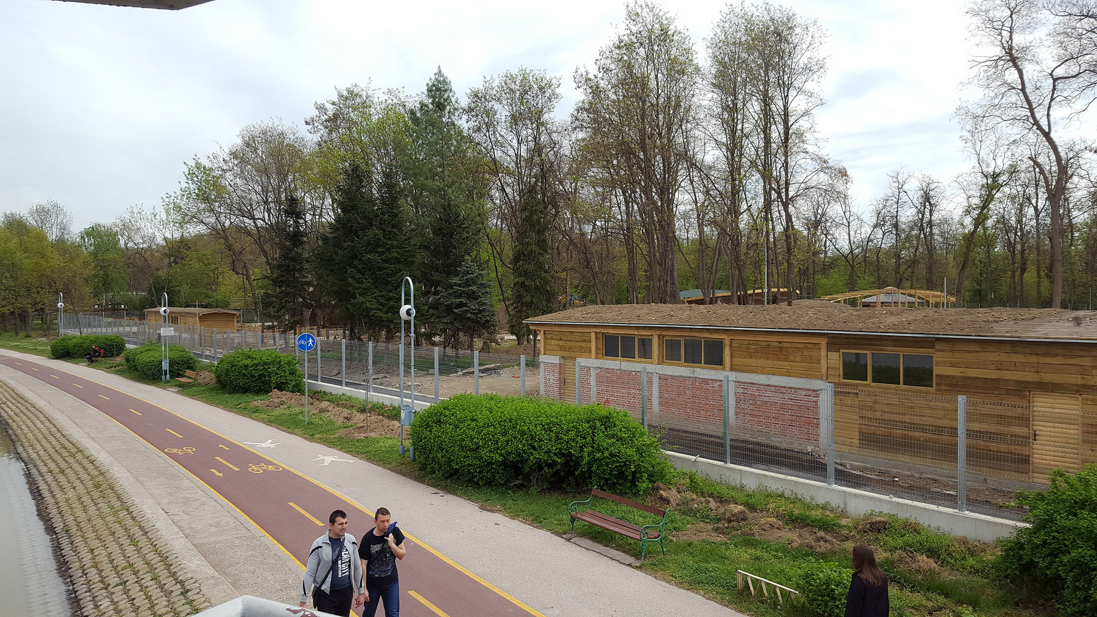 Cycling infrastructure in Plovdiv